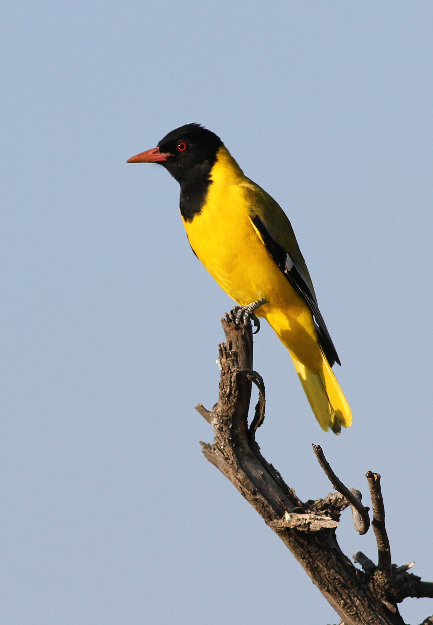 Black-headed oriole, Oriolus larvatus, at Mapungubwe National Park, Limpopo, South Africa